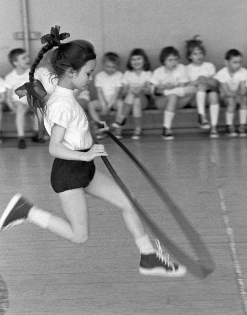 “Physical training lesson”. Physical training lesson at Moscow school No.402